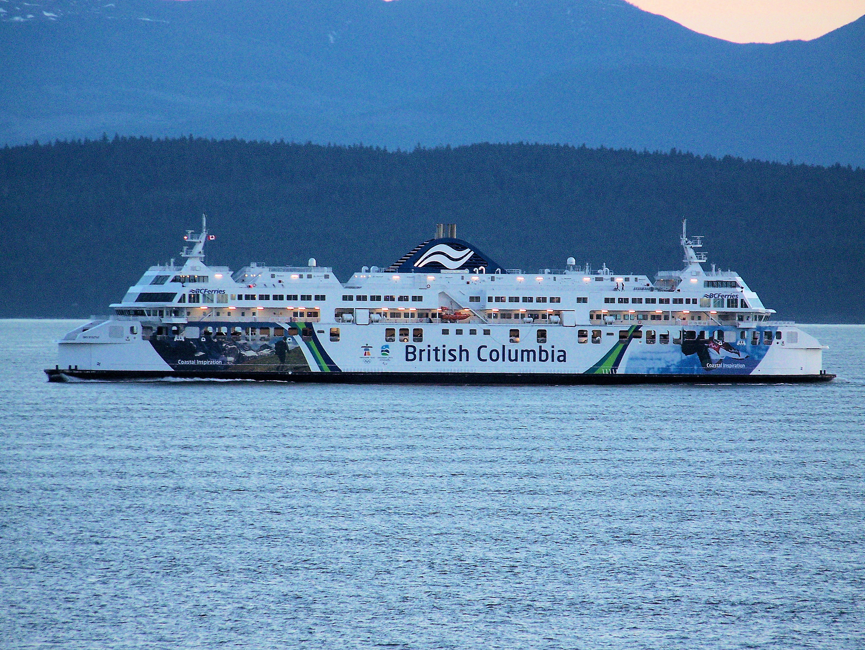 BC Ferry Coastal Inspiration first week of service IMO Number: 9332767 MMSI Number: 316011408 Callsign: CFN4970 Length: 160 m Beam: 28 m